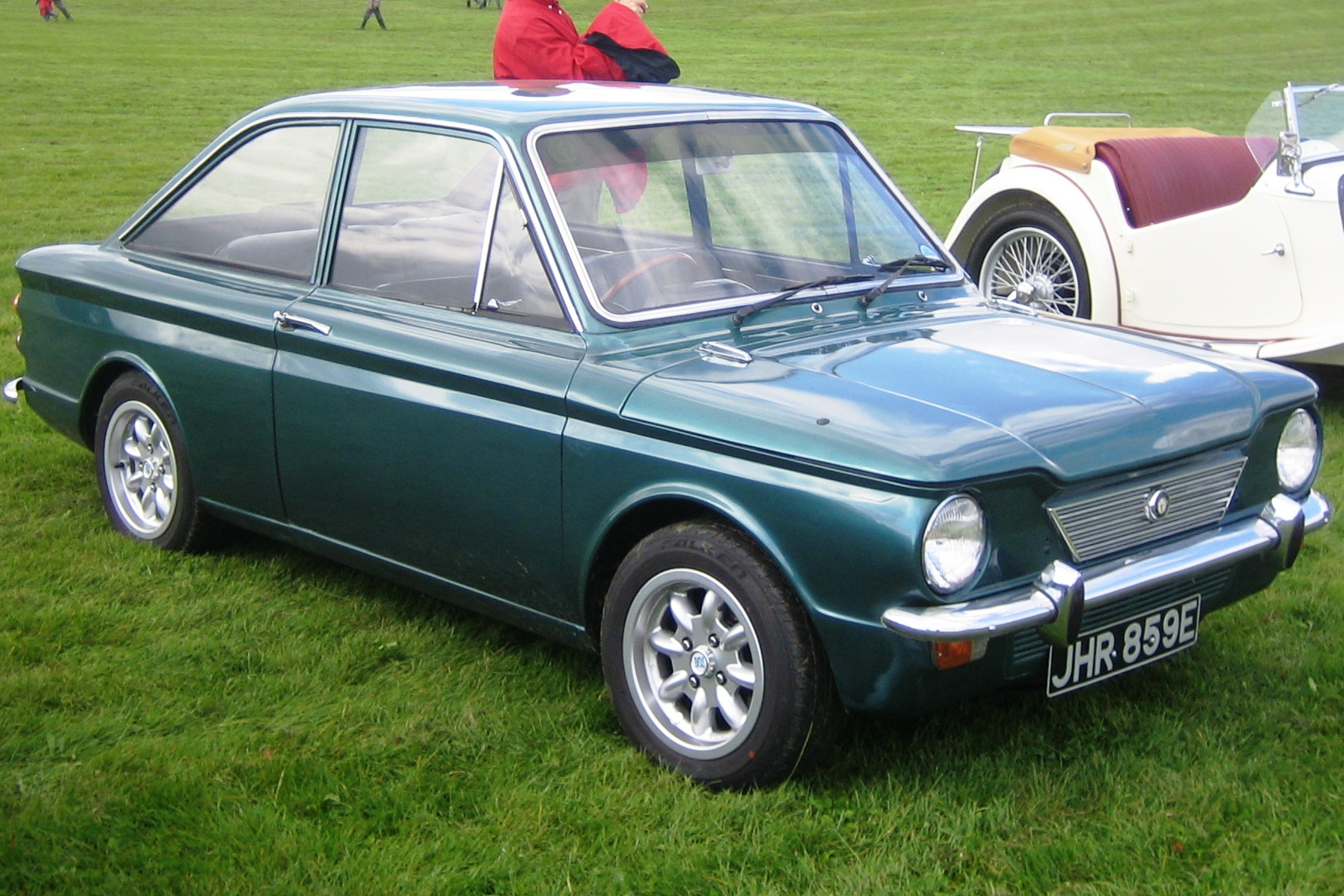 Singer Chamois Coupe at a classic car show in Hertfordshire